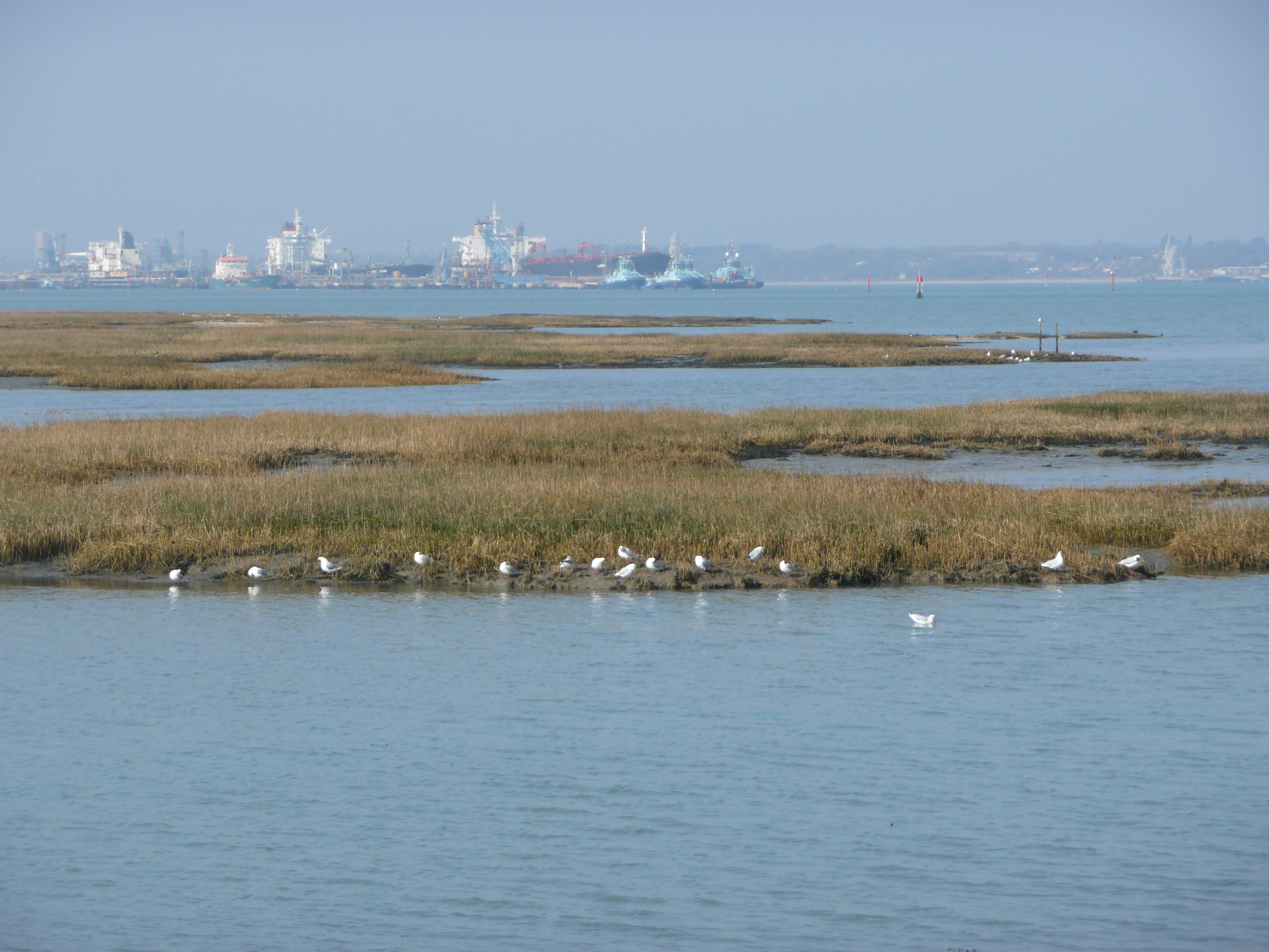 Salt marsh with the oil refinery of Fawley in the background as viewed from Jack Maynard Road near the Calshot Spit in Hampshire, England.